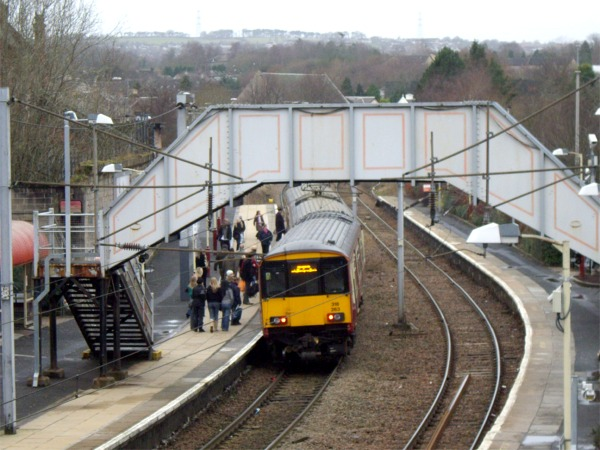 Hamilton Central railway station